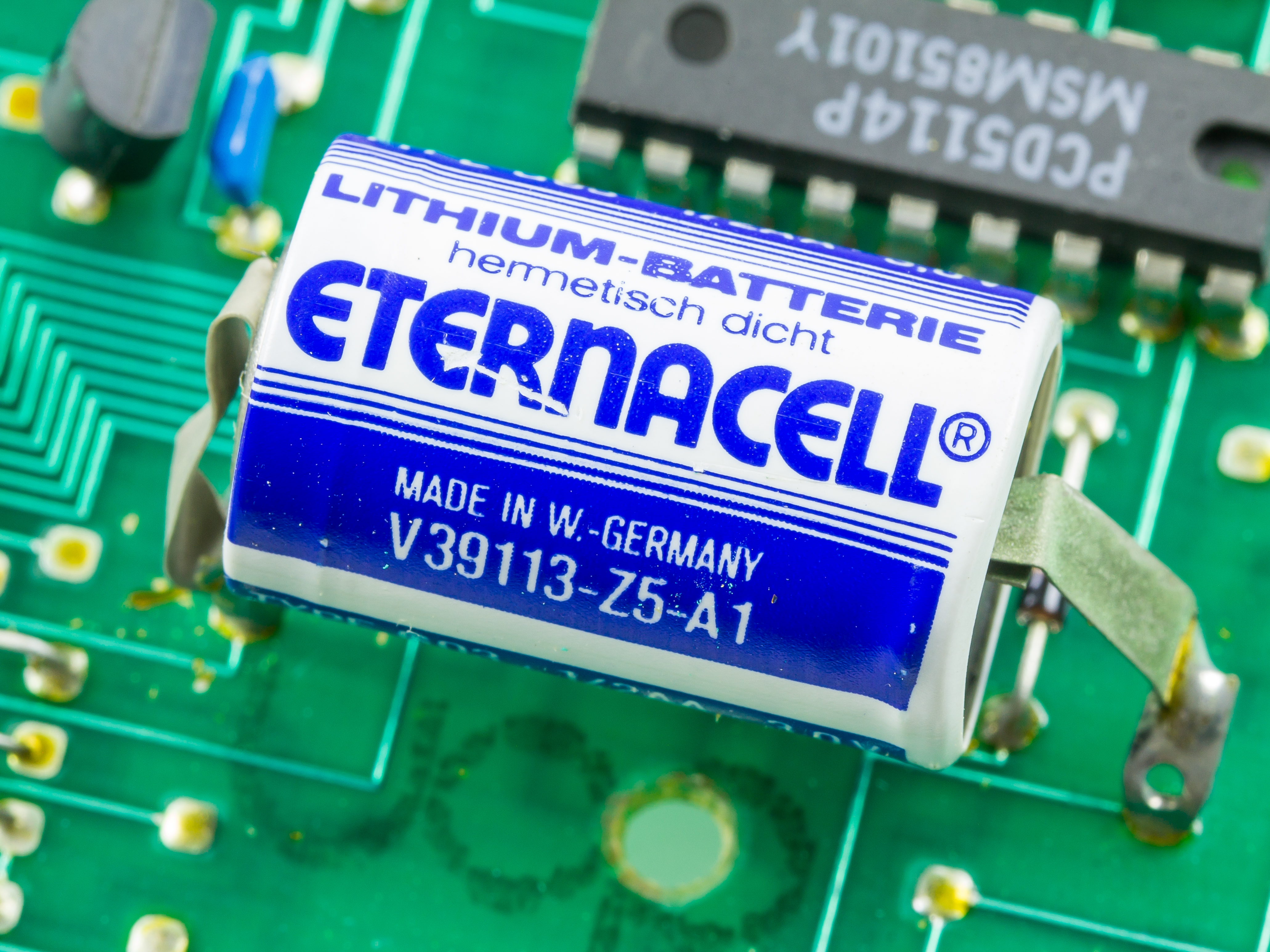 FeAp 92-1a - keyboad and display PCB - Eternacell Lithium battery G03